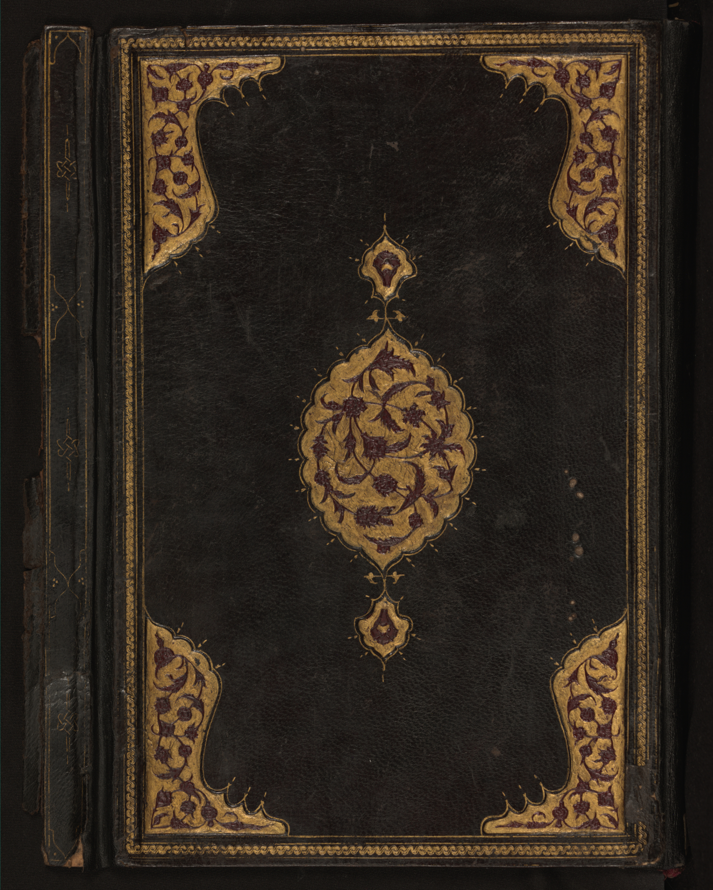 Walters manuscript W.584 is a gloss (hashiyah) by Kemalpasazade (died 940 AH/AD 1533) on the commentary on the Qur'an composed by 'Abd Allah al-Baydawi (died ca. 685 AH/AD 1286) and entitled Anwar al-tanzil. Transcribed in 966 AH/AD 1558, this elegant copy was made from the author's holograph by 'Uthman ibn Mansur. This Ottoman manuscript, Walters W.584, is a gloss (hashiyah) by Kemalpasazade (died 940 AH/AD 1533) on the commentary on the Qur'an composed by 'Abd Allah al-Baydawi (died ca. 685 AH/AD 1286) entitled Anwar al-tanzil. Transcribed in 966 AH/AD 1558, the present copy was made from the author's holograph by 'Uthman ibn Mansur. The text is written in Turkish Nasta'liq script in black ink with the words qala and aqulu in red, and it opens with an illuminated incipit with titlepiece inscribed with the doxological formula (basmalah). The dark brown leather binding has a central lobed oval with pendants and cornerpieces with arabesque designs on a gold ground.